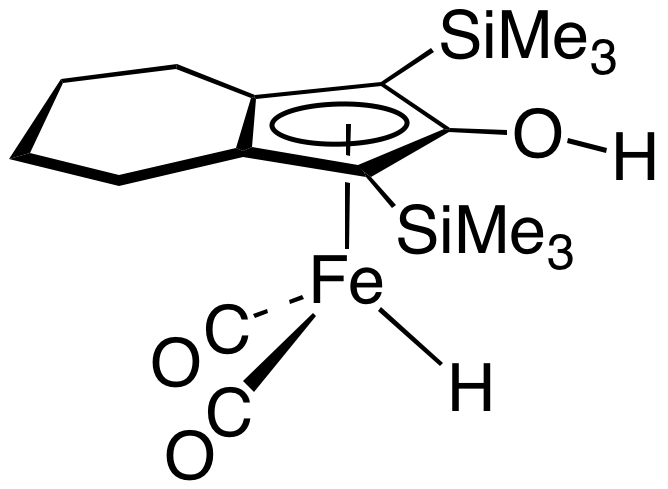 structure of Kloelker's complex